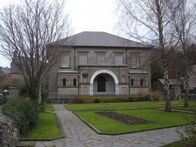 Jerusalem Chapel Jerusalem Chapel in Bethesda.